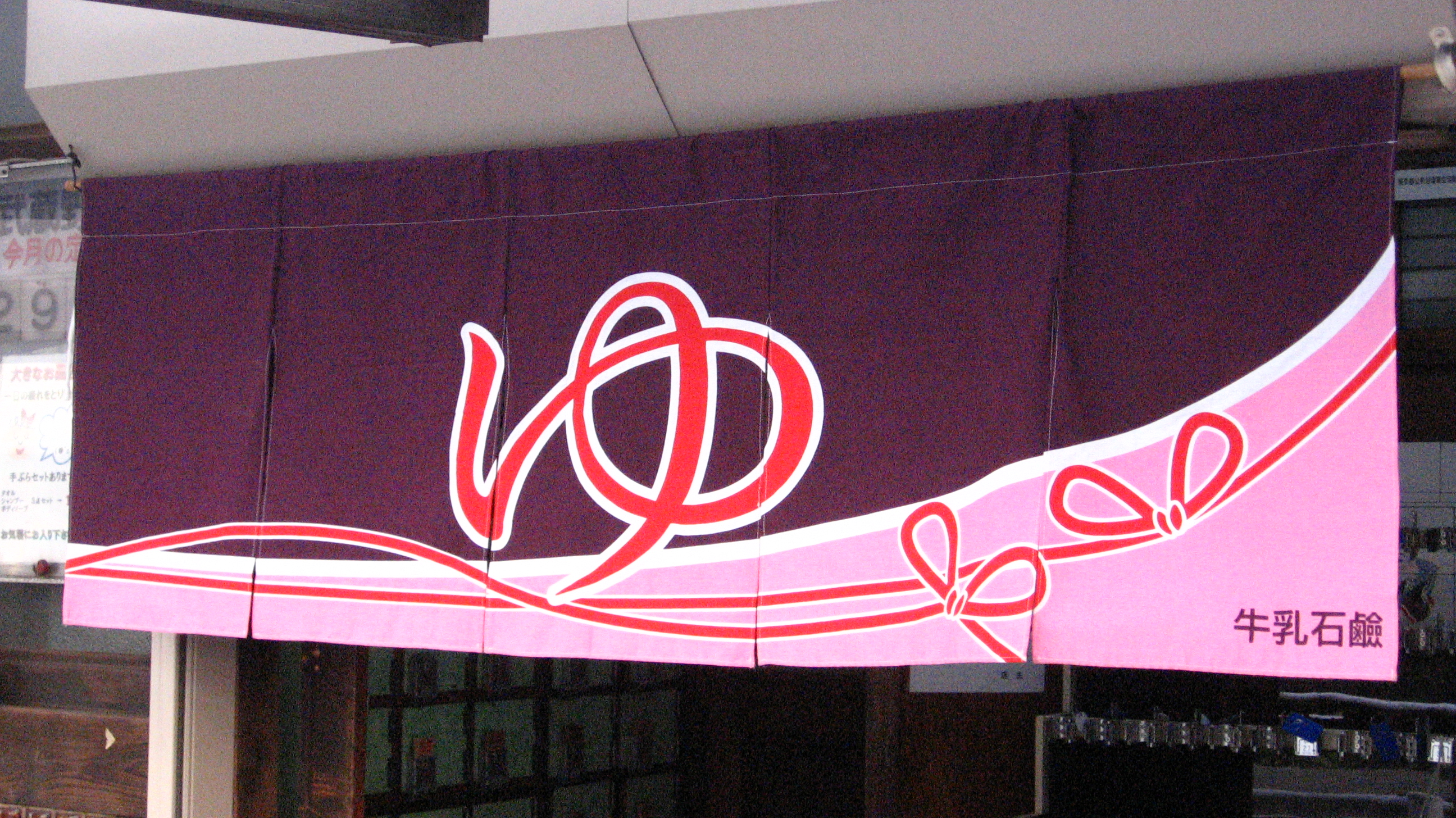 noren of "Gyunyu-sekken" I am seen well at a public bath.